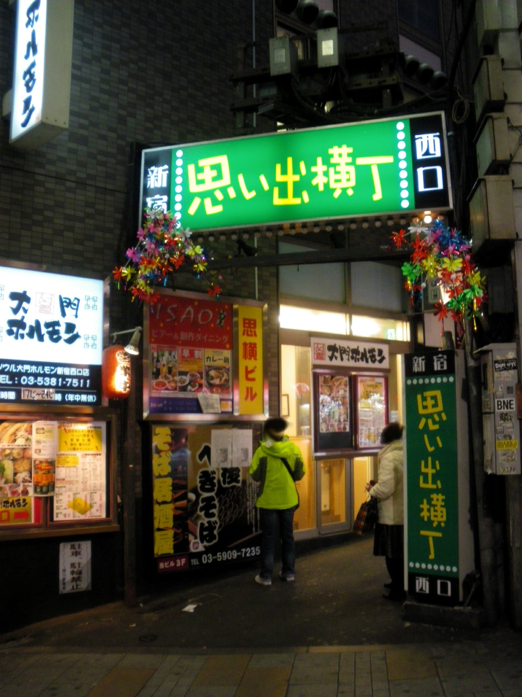 A photo of an entrance of Shinjuku Omoide Yokocho,Nishishinjuku,Shinjuku-ku,Tokyo,Japan.